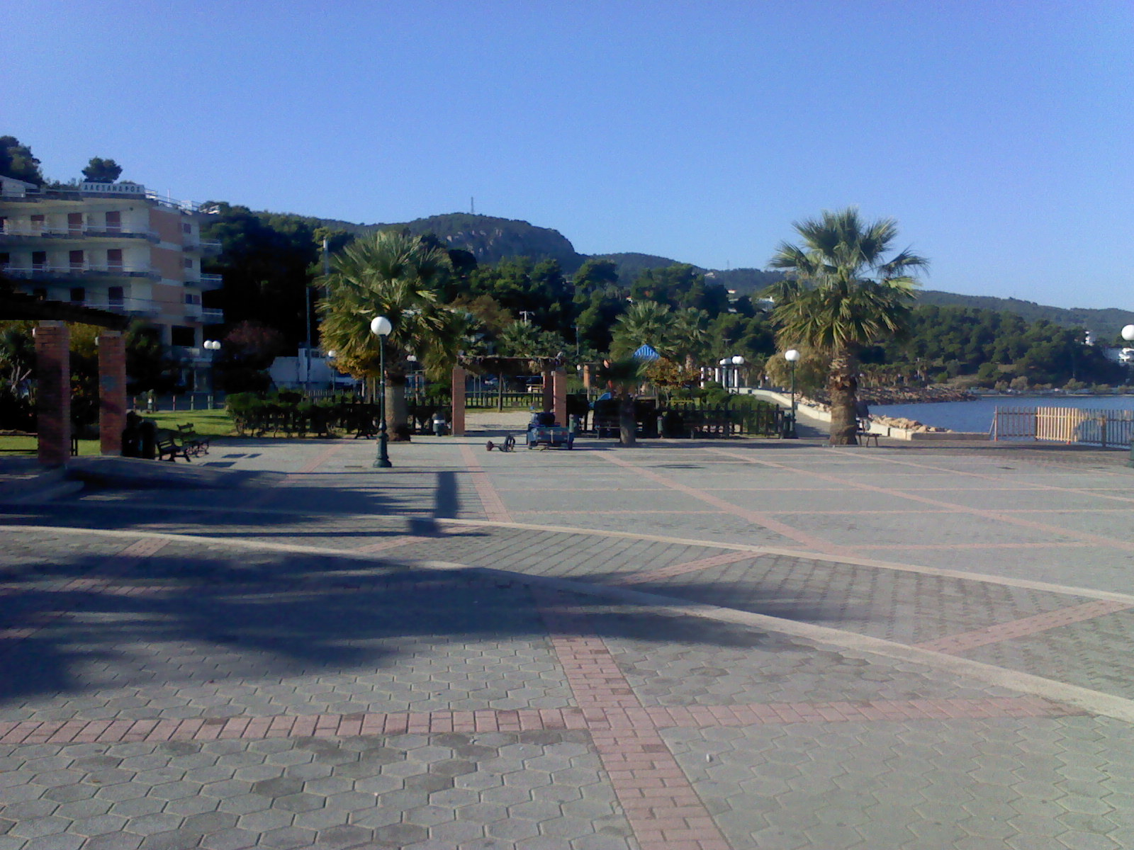 Park Agioi Apostoloi Kalamos